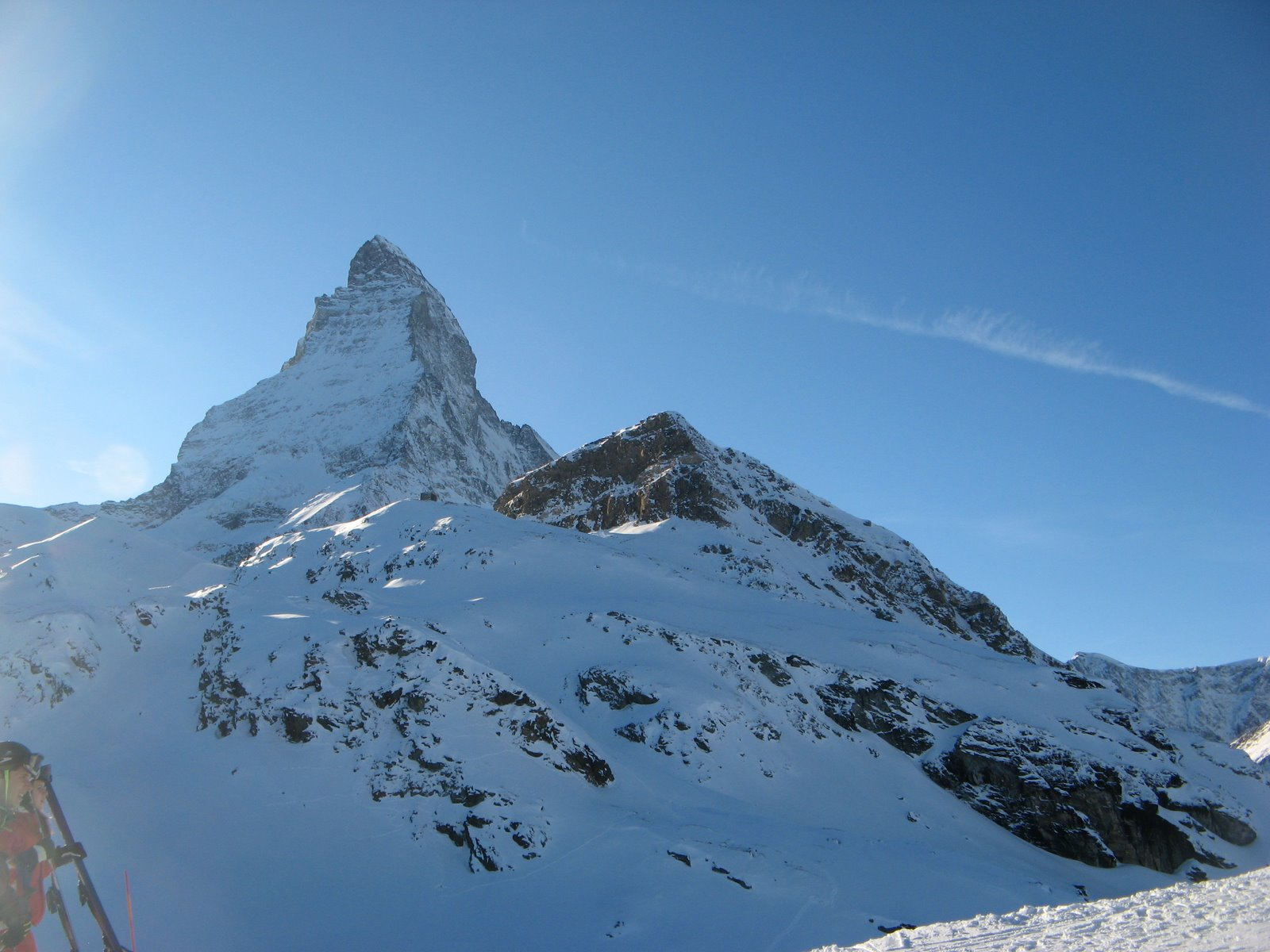 Matterhorn as viewed from Schwarzsee, Zermatt, Valais, Switzerland